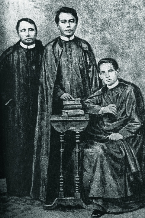 Gomburza, Filipino revolutionaries in the 1872 Cavite mutiny — Fathers Mariano Gómez, José Apolonio Burgos, and Fray Jacinto Zamora